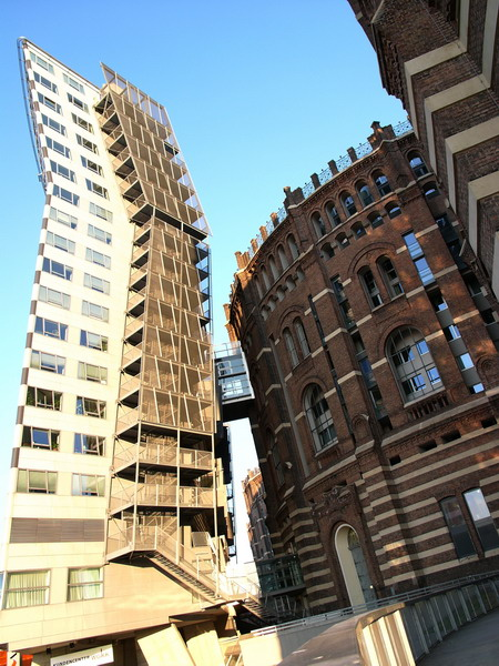 Gasometer B in Vienna, Austria